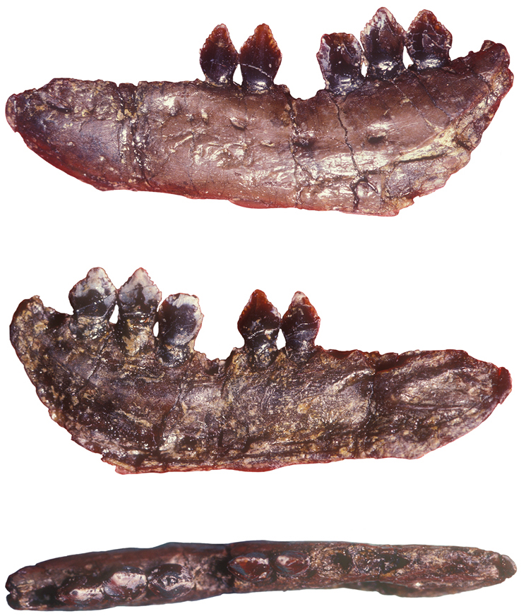 Dentary of Echinodon becklesii from the Lower Cretaceous Purbeck Formation of England. Left dentary (NHMUK 48215b) in lateral (A), medial (B), and dorsal (C) views.